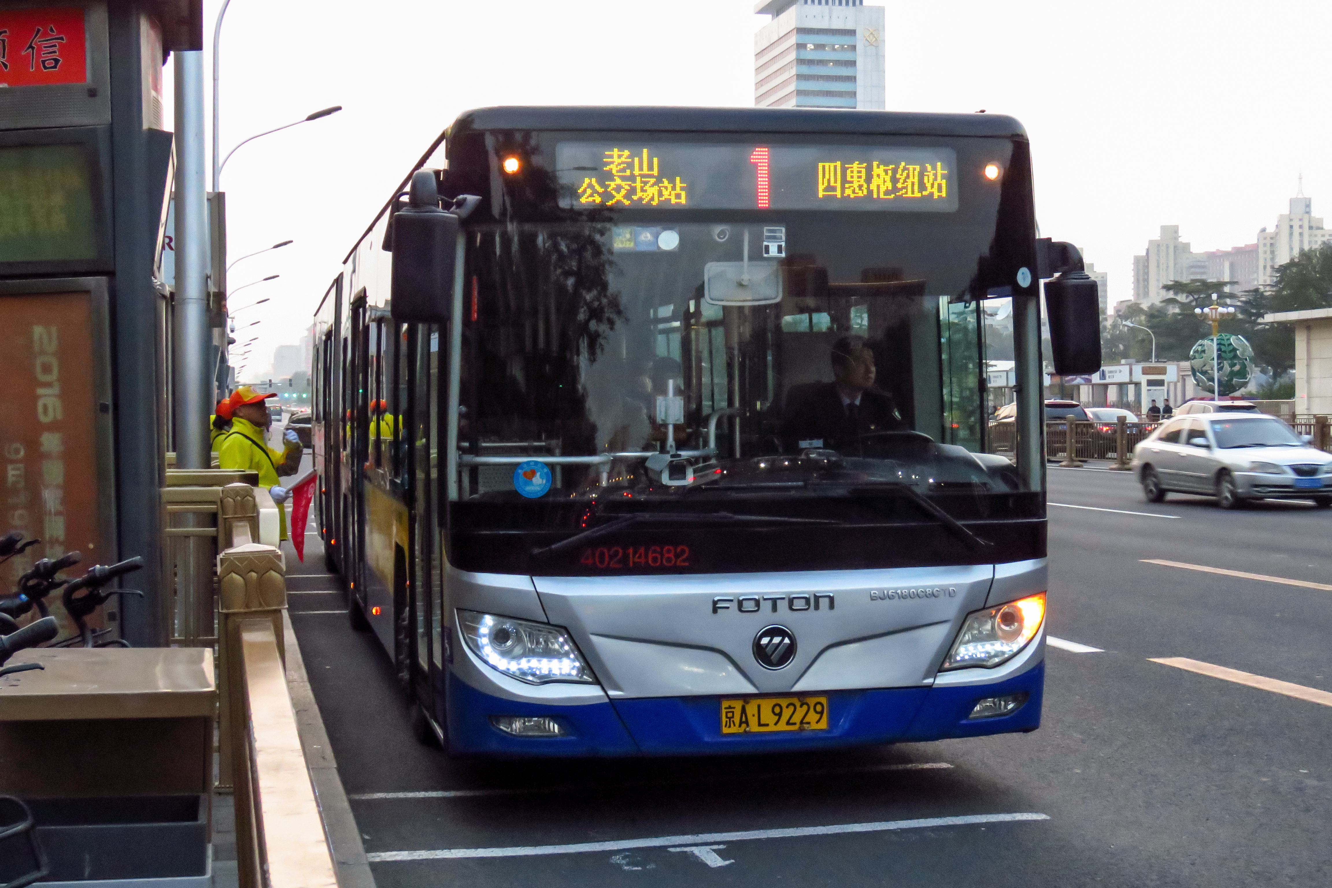 Prototype tour.